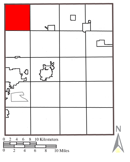 Map of Portage County, Ohio with the city of Aurora highlighted.